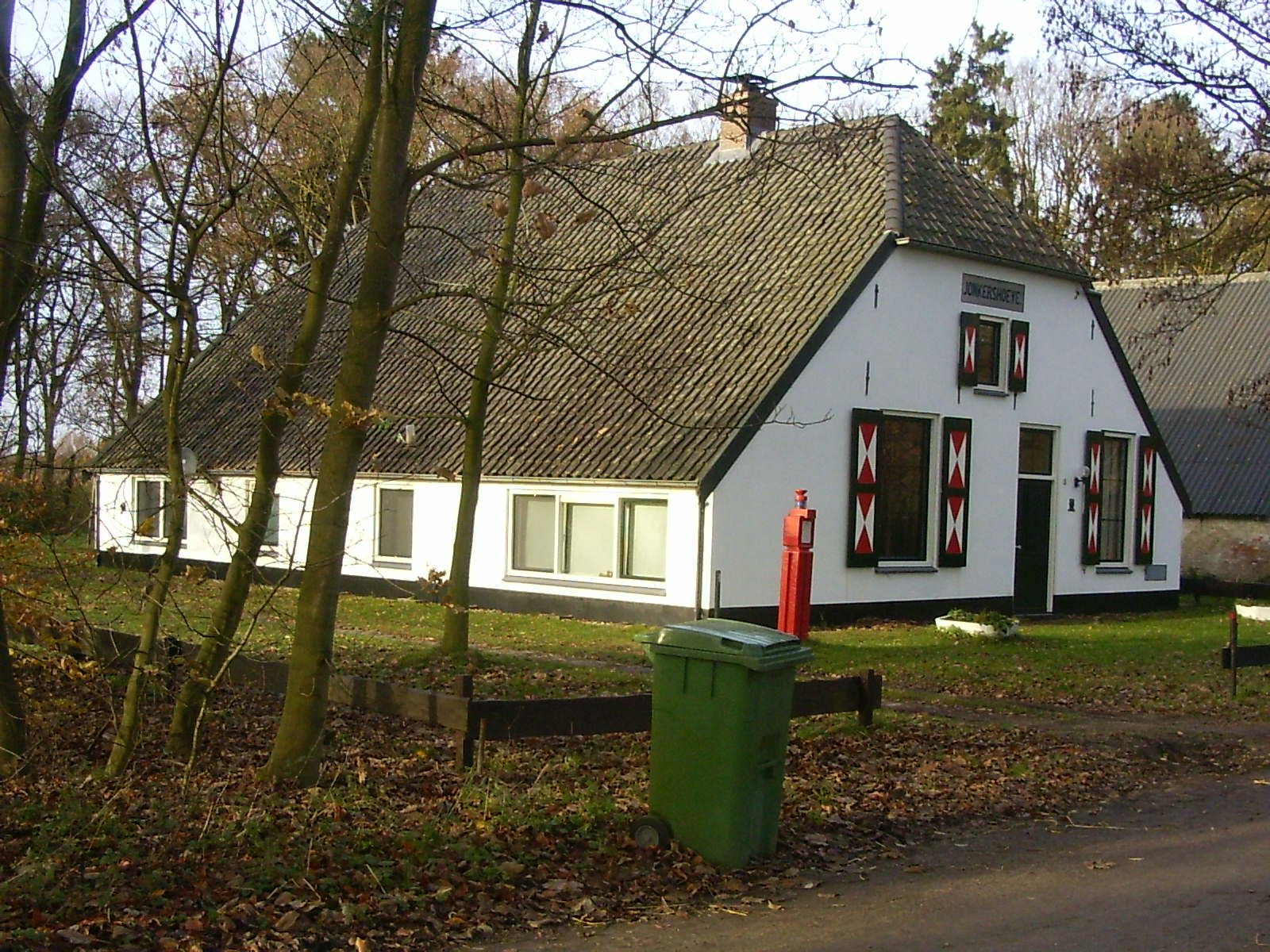 Renkum, farm house Jonkershoeve